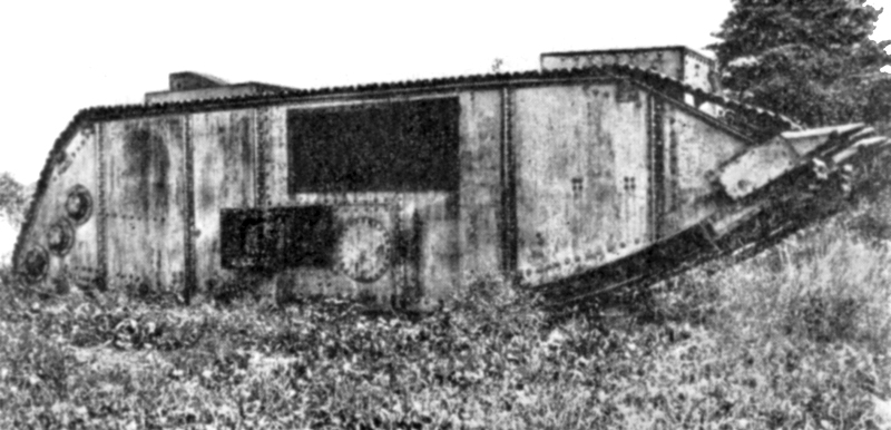 The US Army Corps Of Engineers Steam Tank of 1918. Imperial War Museum? - picture scanned by me Ian Dunster 13:08, 21 September 2005 (UTC) from: Tank Museum Guide. Tanks Of Other Nations - Royal Armoured Corps Centre, Bovington - (No ISBN) and uncredited.